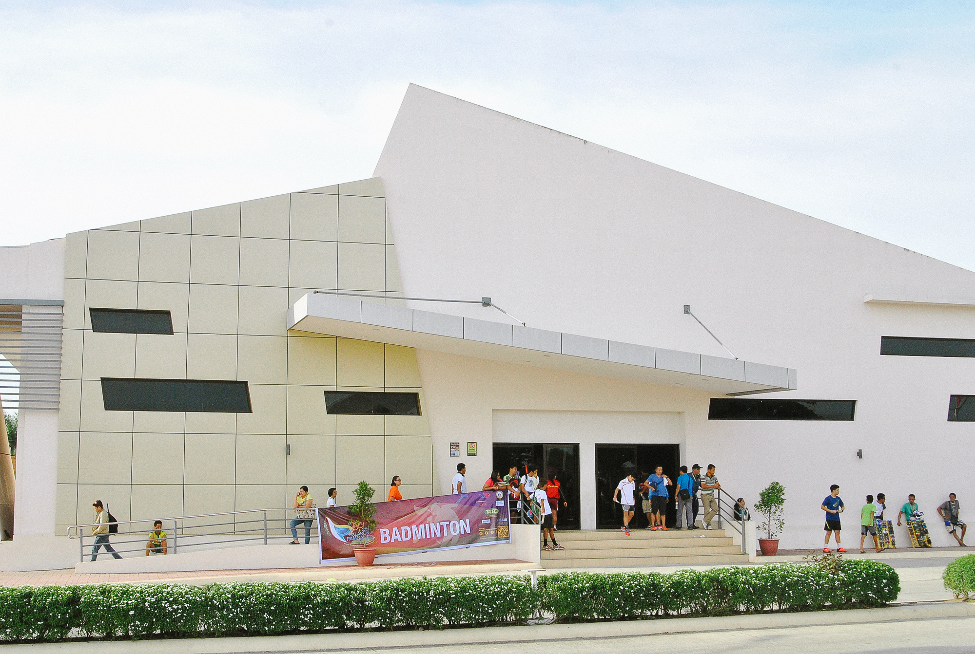 The Rodolfo P. Del Rosario Gymnasium inside Davao del Norte Sports and Tourism Complex.